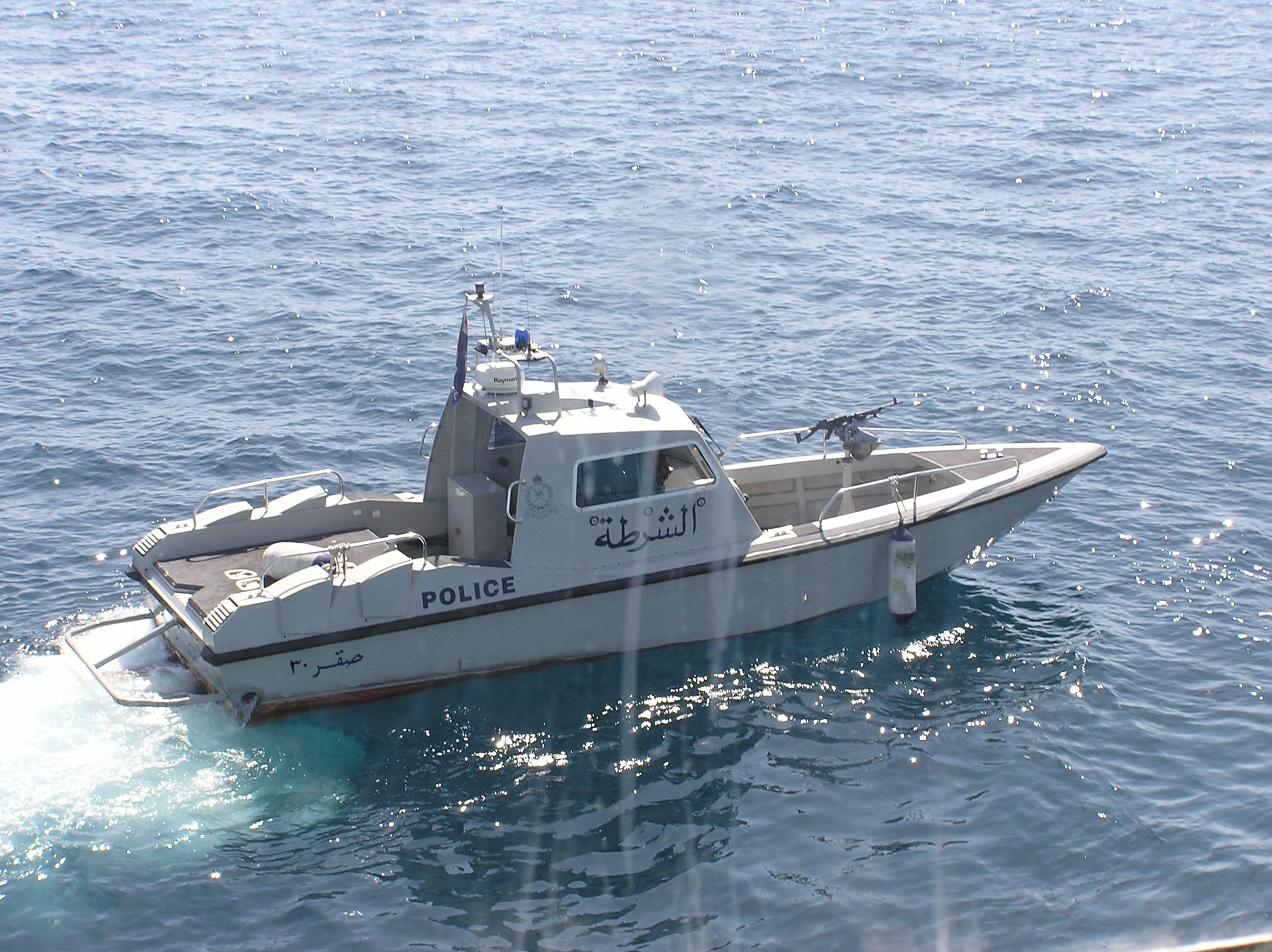 Photo taken in Musandam, Oman, using an Olympus C750UZ. The Image shows a Royal Oman Police Coast Guard Vessel